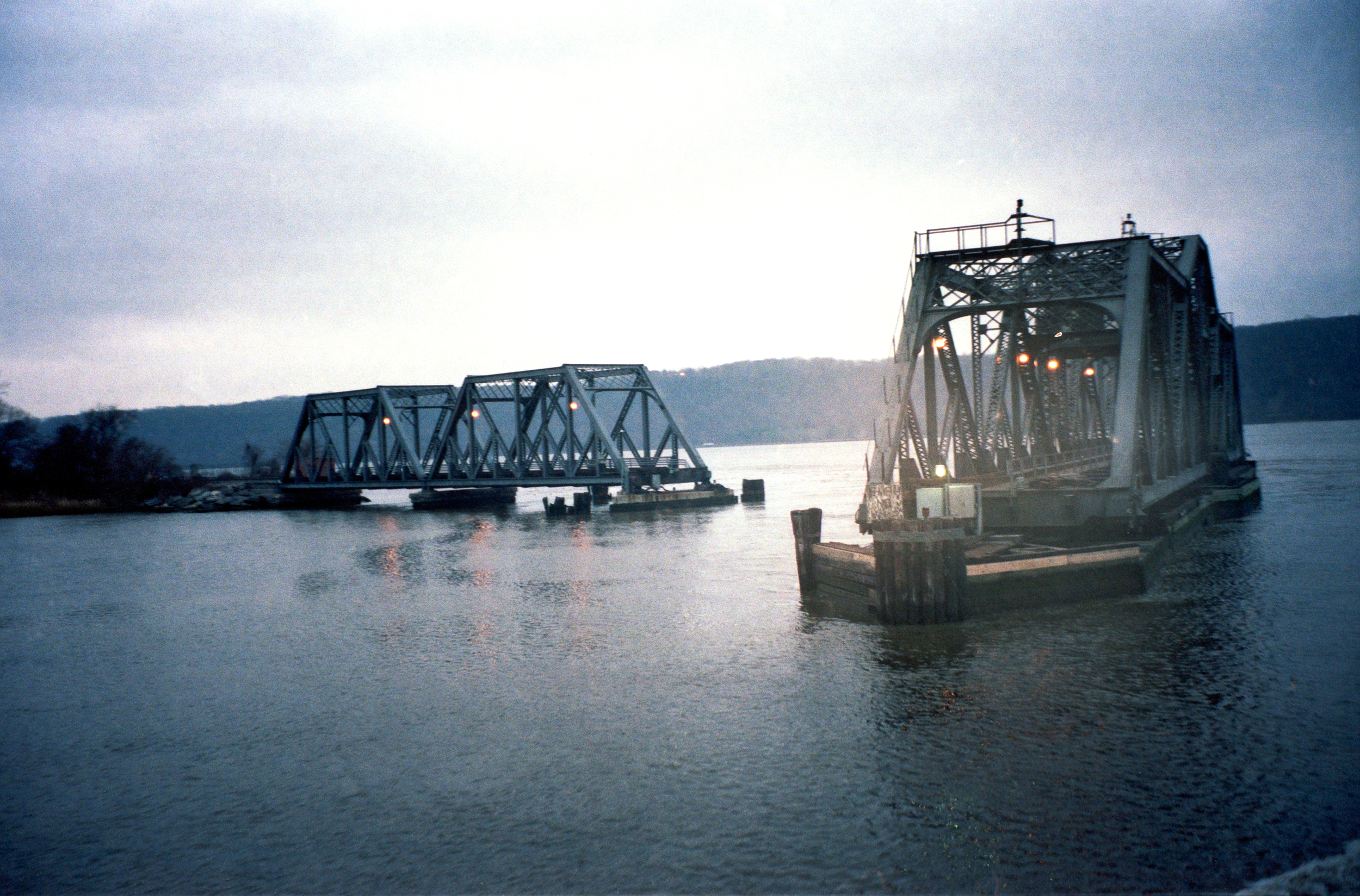 New York City, Harlem River, Spuyten Duyvil Swing Bridge at entrance from Hudson river